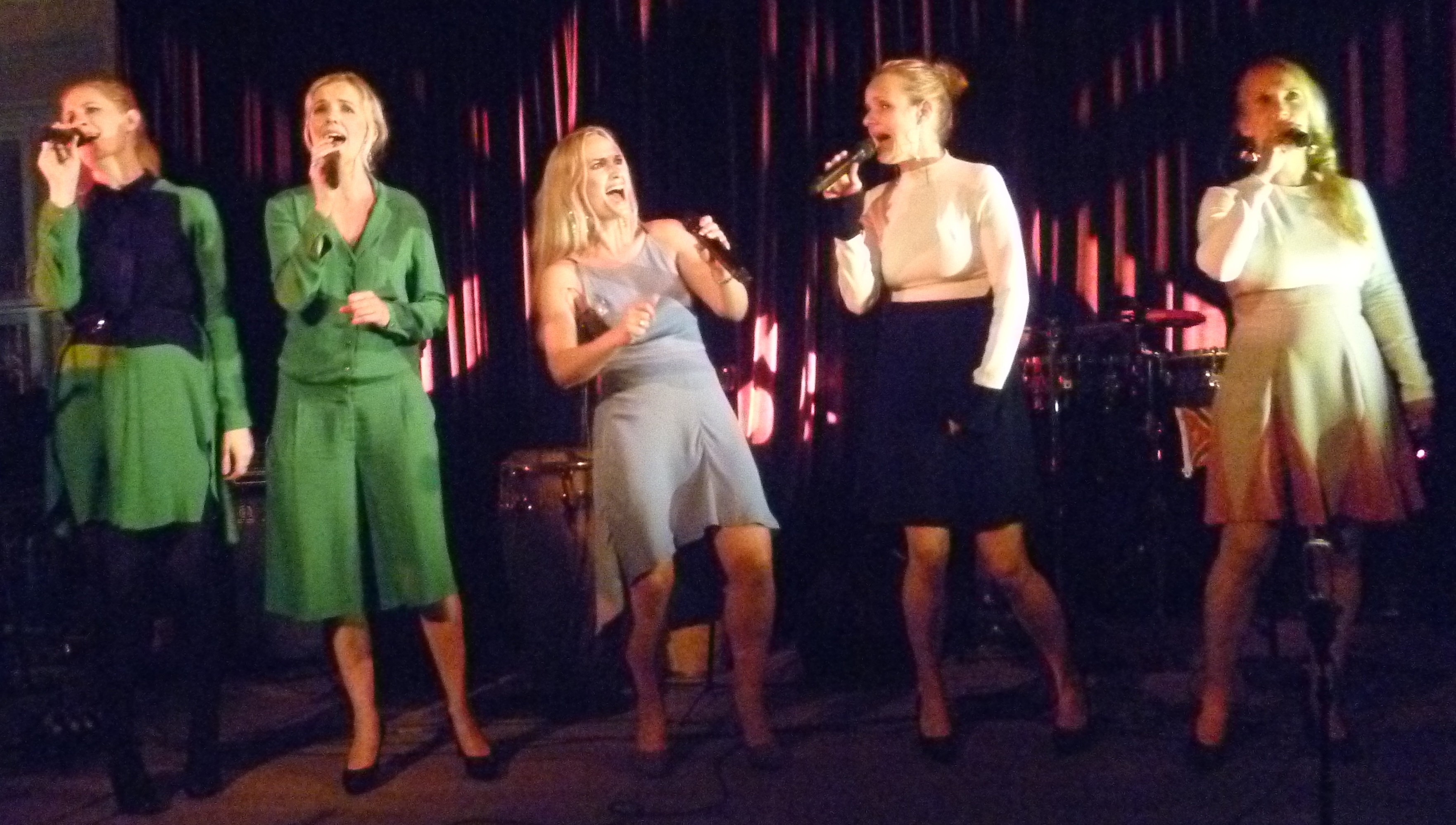 Pitsj with Anja Eline Skybakmoen, Anine Kruse Skatrud, Ane Carmen Roggen, Benedikte Shetelig Kruse and Ida Roggen at Ingensteds September 10, 2016.